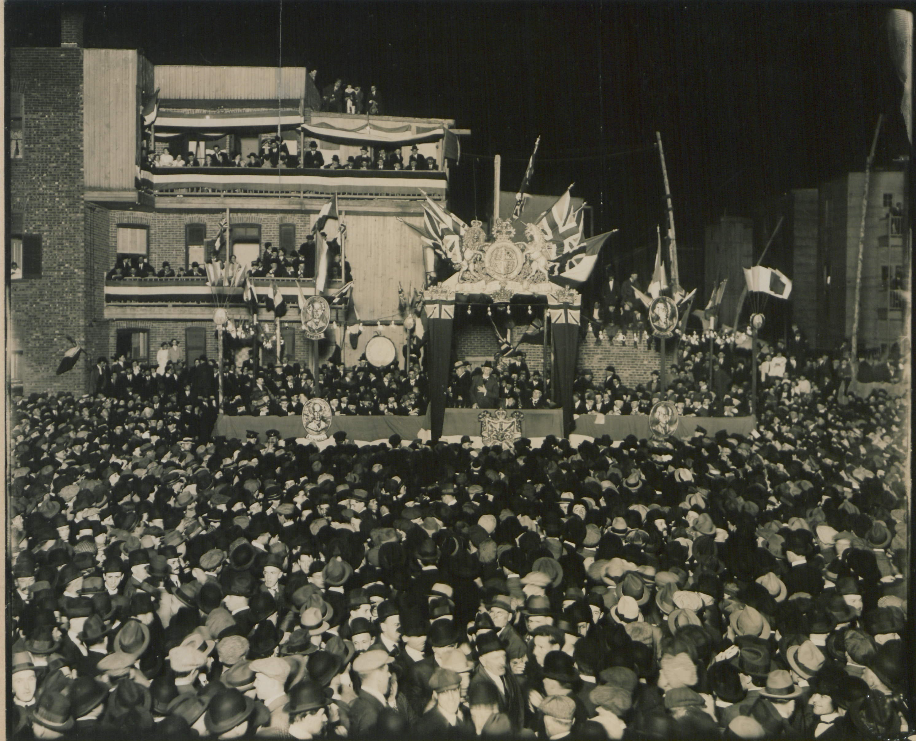 Original caption: “Sir Wilfred Laurier at Montreal, September 27th, 1916.”